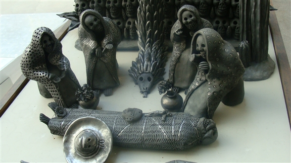 Funeral scene done in barro negro pottery for Day of the Dead at the Museo de Arte Popular